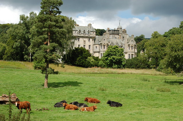 Glen House The southeast aspect of this imposing house in Glen Estate.